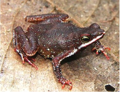 Cropped from File:Amazophrynella diversity.jpg